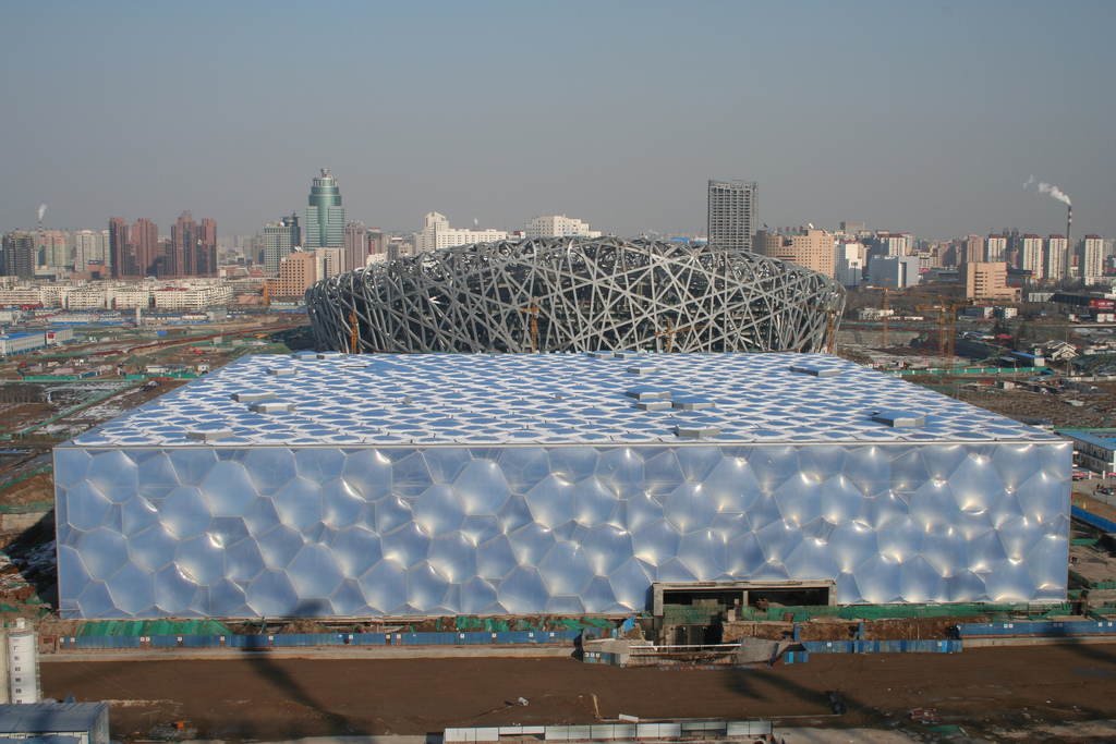 Beijing National Aquatics Centre and Beijing National Stadium (background)